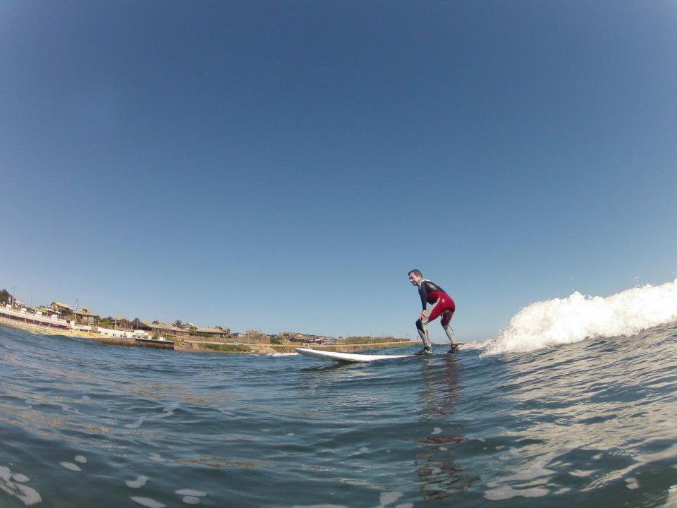 Governor of Cardenal Caro, Julio Ibarra, practising surf at the beach of Las Terrazas, in Pichilemu, Chile.